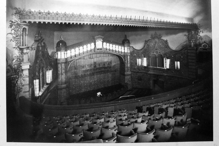 The original auditorium of the Savoy Cinema Dublin, 1929. (Photographed by Meagher & Hayes)